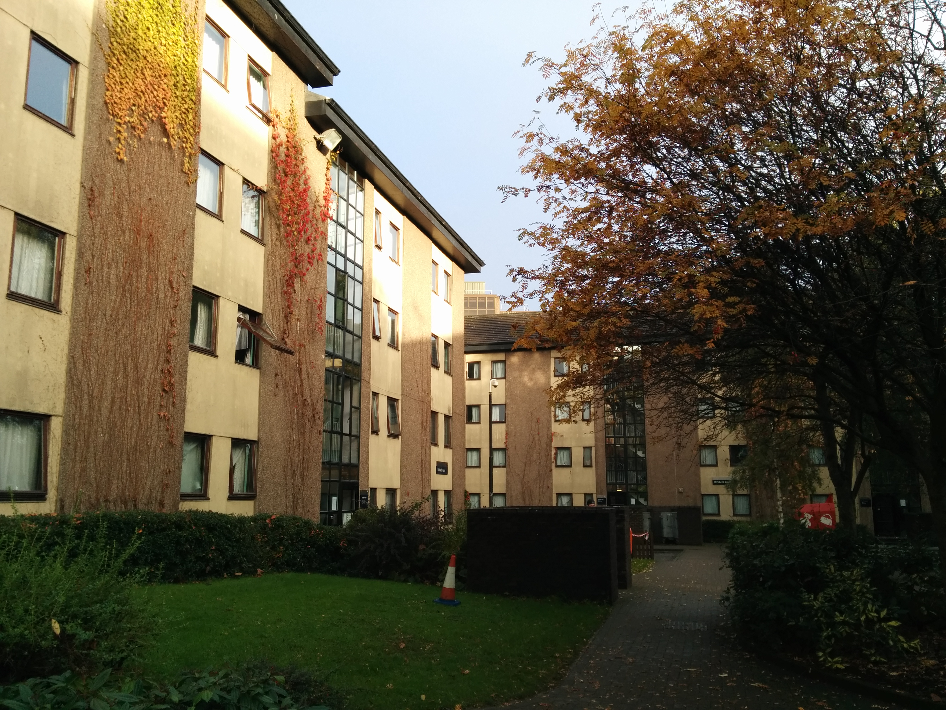 Picture of Birkbeck Court (Strathclyde)